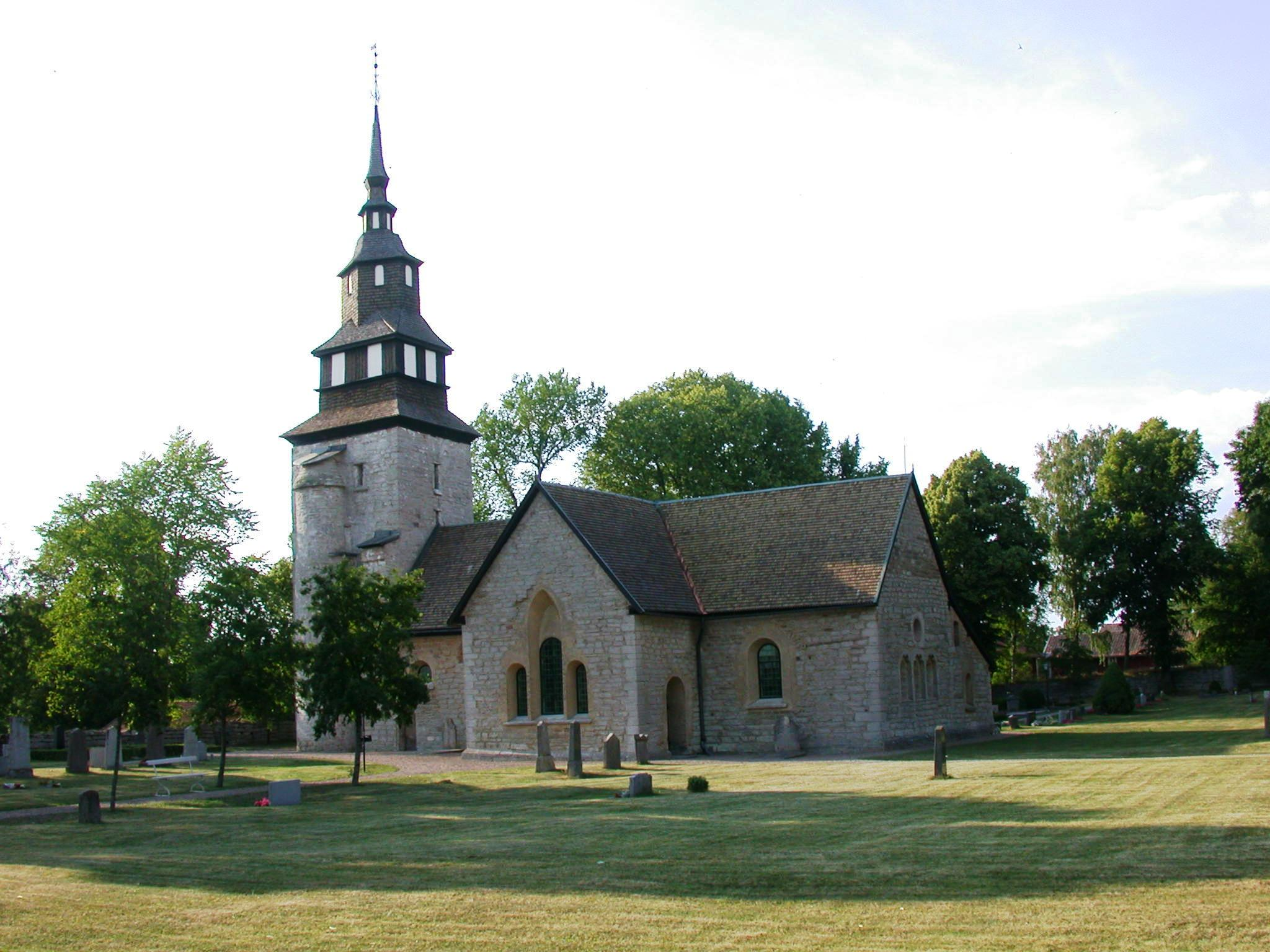 Örberga church, Vadstena, Sweden. Photo by Riggwelter, July 20, 2006.